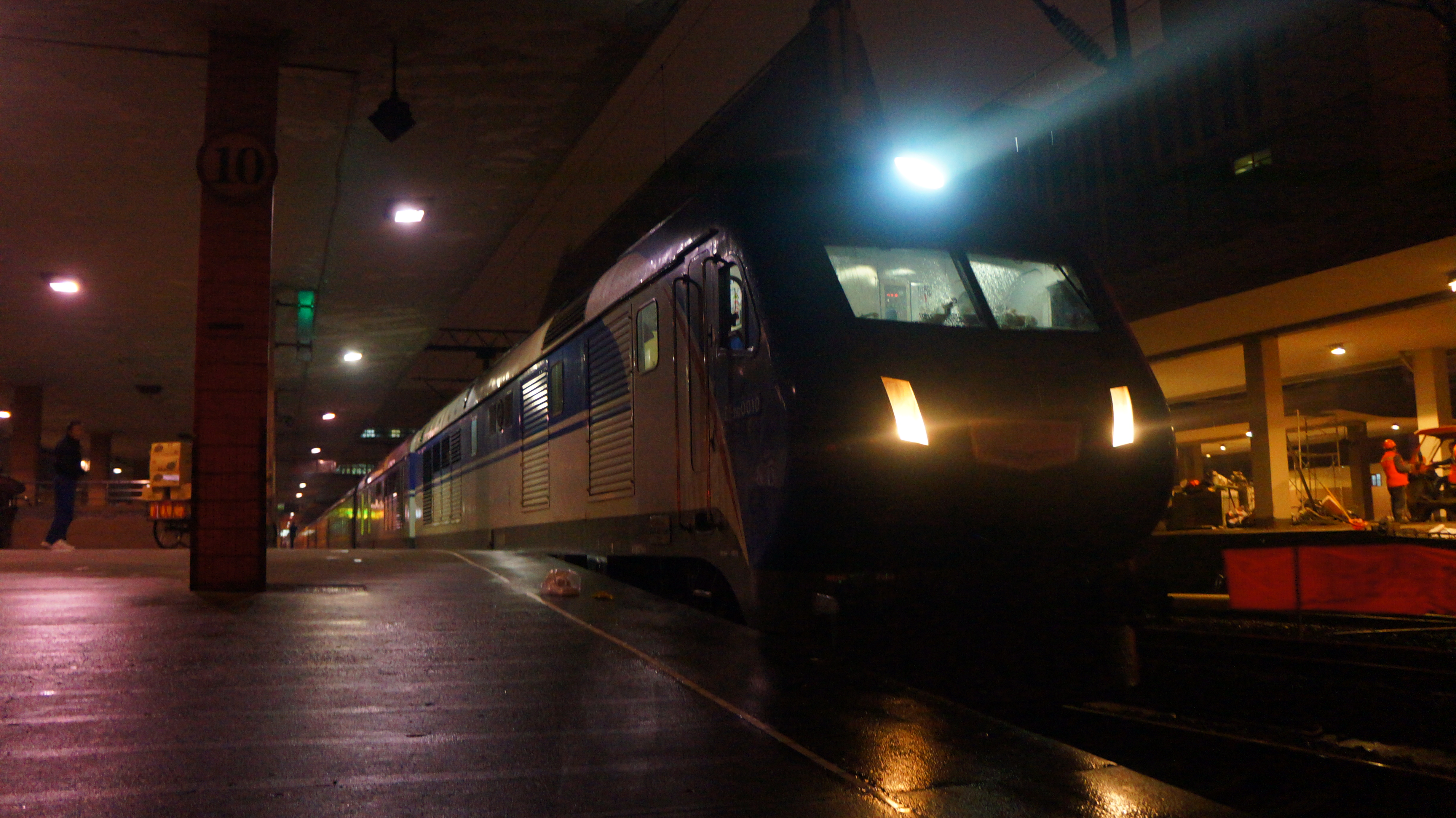 DF11G-0009/0010 drives Z10 at Hangzhou Railway Station